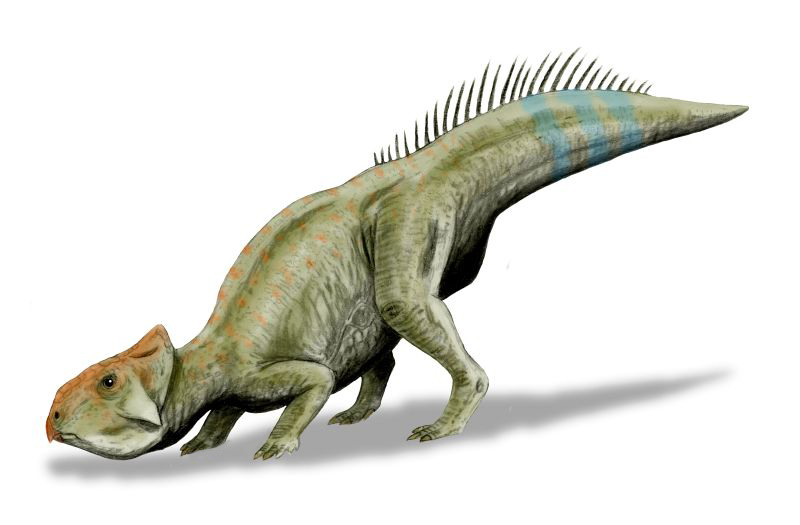 Leptoceratops gracilis, a ceratopsian from the Late Cretaceous of North America, pencil drawing, digital coloring